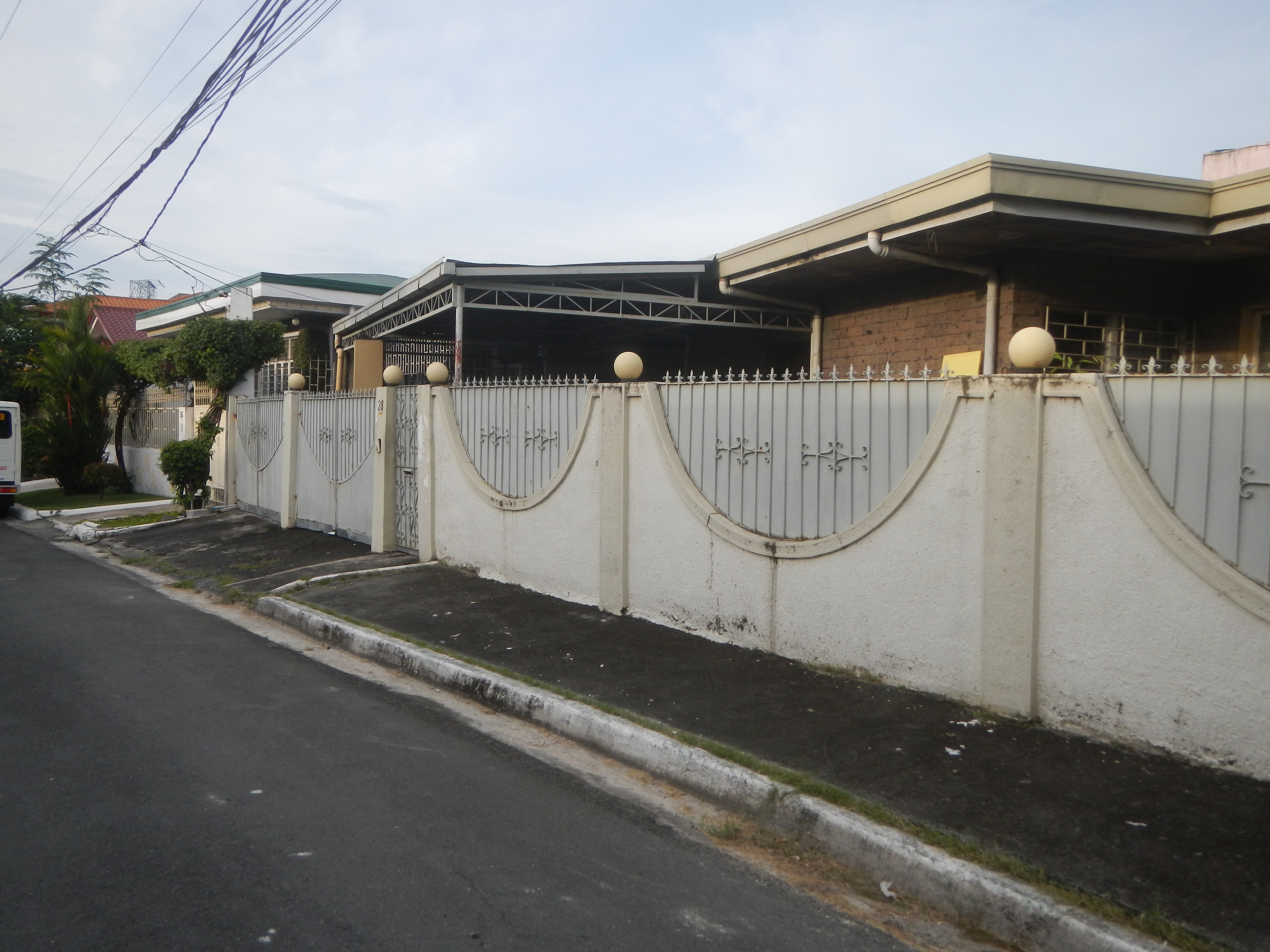 Swing and Carillon Bells Mary Help of Christians Parish & National Shrine (Better Living Subdivision, Don Bosco, Parañaque City) Swing and Carillon Bells Blessed on January 19, 2018 Marker on August 27, 2011 in Legislative districts of Parañaque 1st District, Districts and barangays Don Bosco 14°28'48"N 121°1'31"E, Parañaque City from Doña Soledad Avenue (Note: Judge Florentino Floro, the owner, to repeat, Donor Florentino Floro of all these photos hereby donate gratuitously, freely and unconditionally Judge Floro all these photos to and for Wikimedia Commons, exclusively, for public use of the public domain, and again without any condition whatsoever).